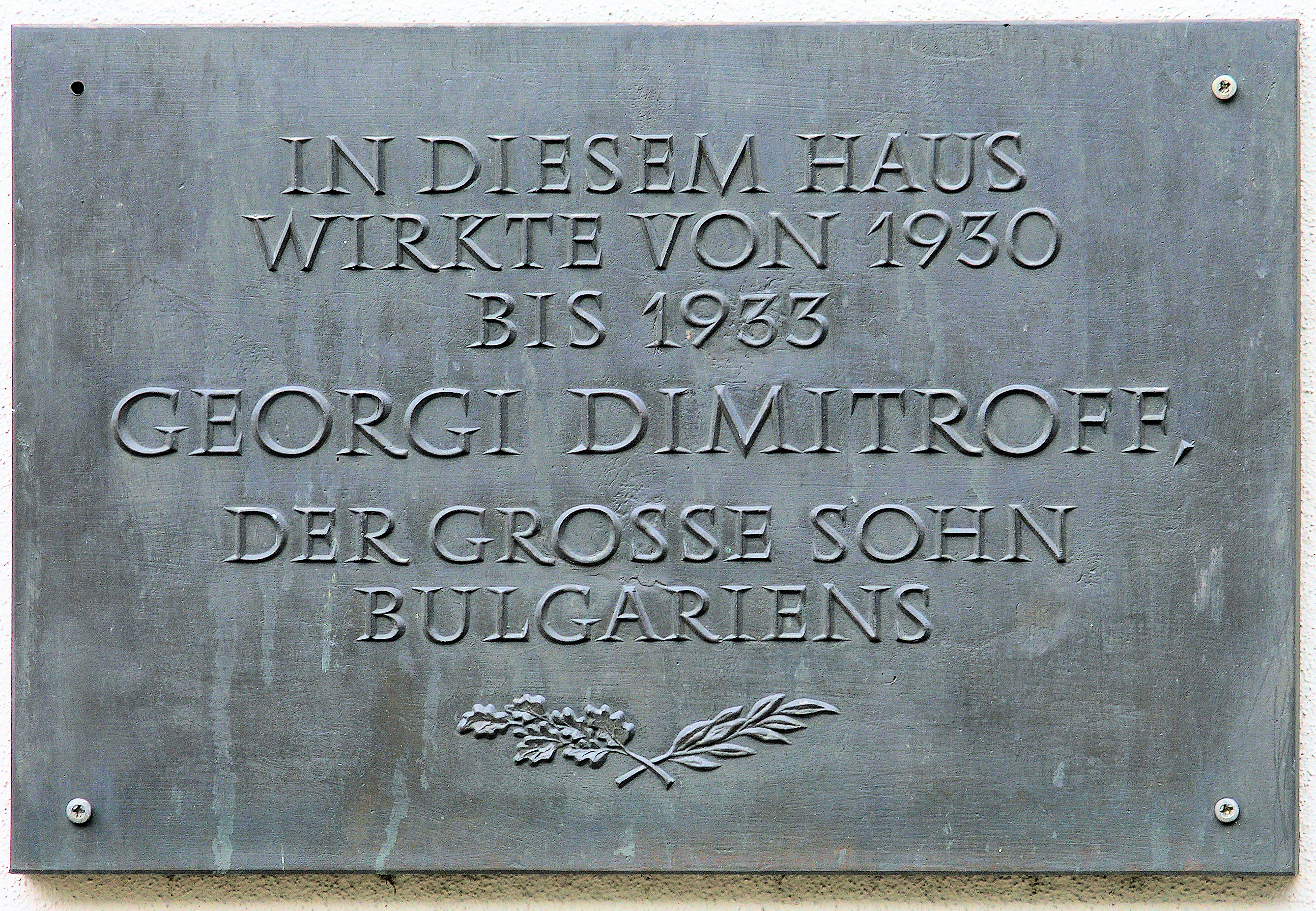 Memorial plaque, Georgi Michailowitsch Dimitroff, Schlüterstraße 21, Berlin-Charlottenburg, Germany